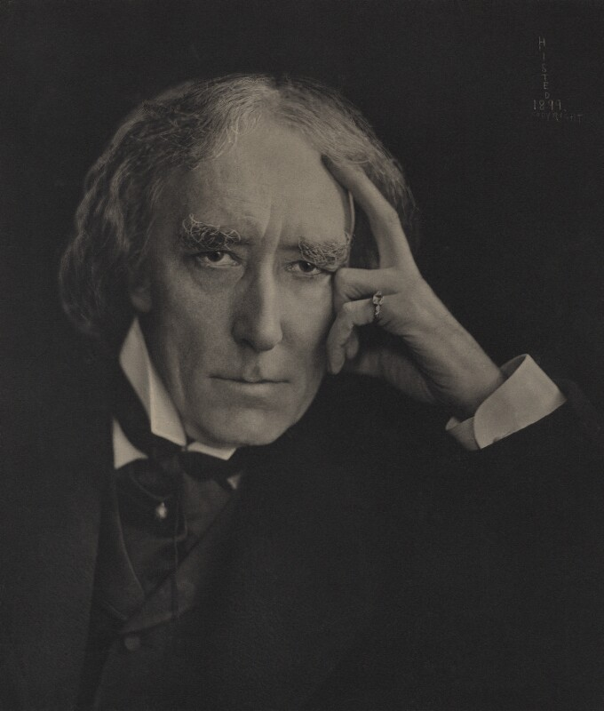 Photo by Ernest Walter Histed Depicted person: Henry Irving – English stage actor of the Victorian era